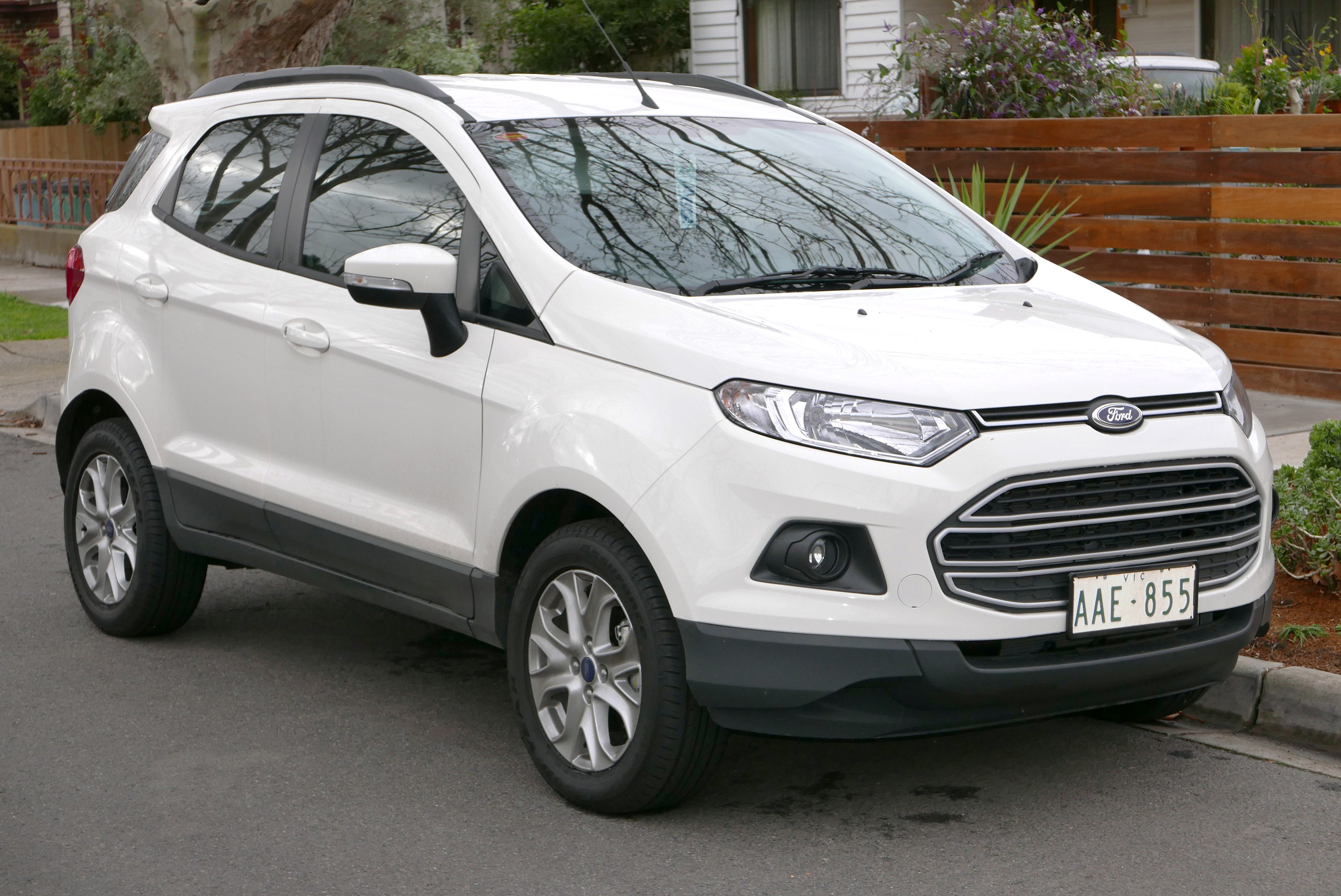 2015 Ford EcoSport (BK) Trend wagon. Photographed in Alphington, Victoria, Australia. Vehicle registration enquiry results Jurisdiction Victoria Registration AAE855 Chassis code MAJBXXMRKBFD18709 Engine code FD18709 Compliance date 2015-05 Year of manufacture 2015